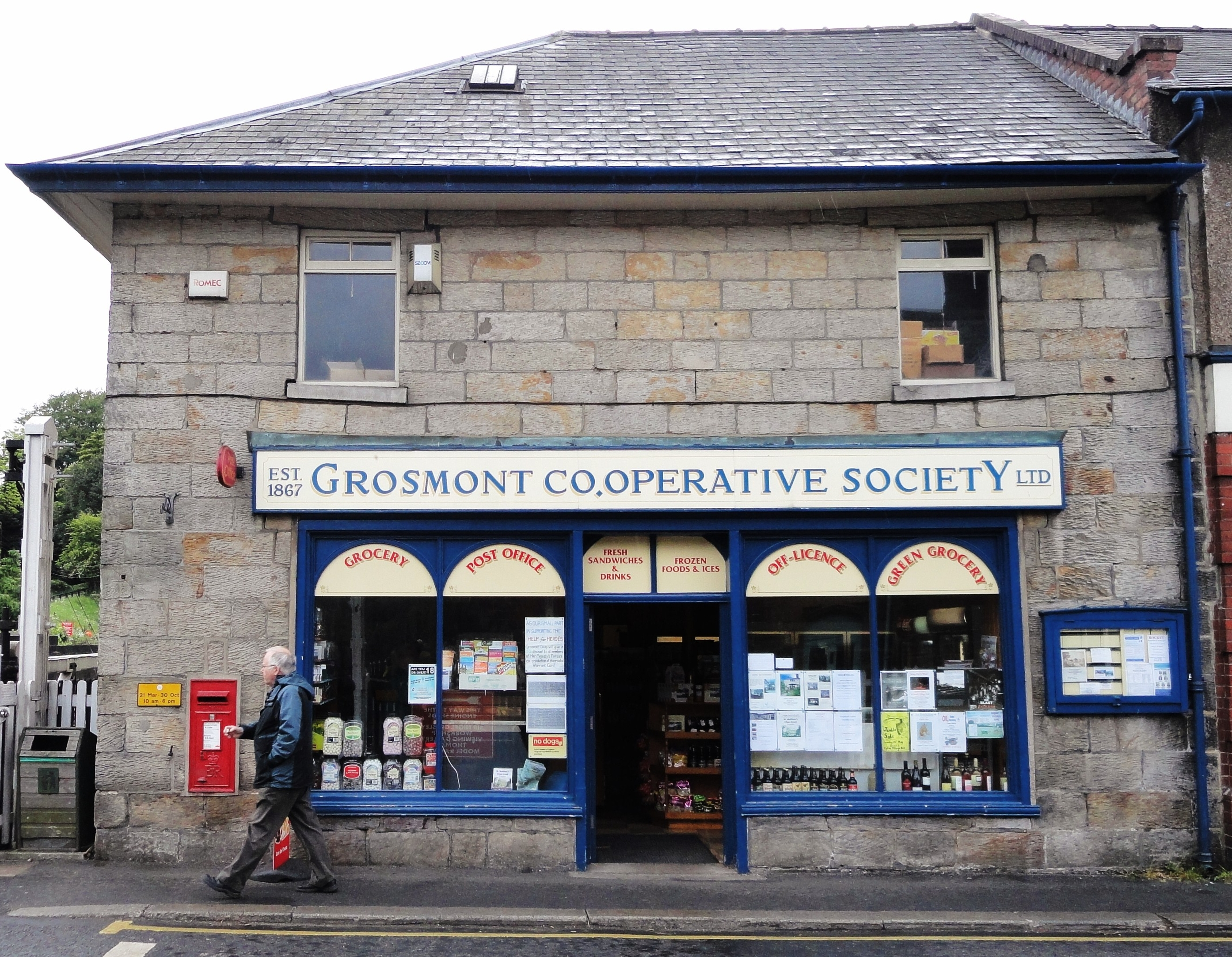 Grosmont, near Whitby ... Co - op and post office.